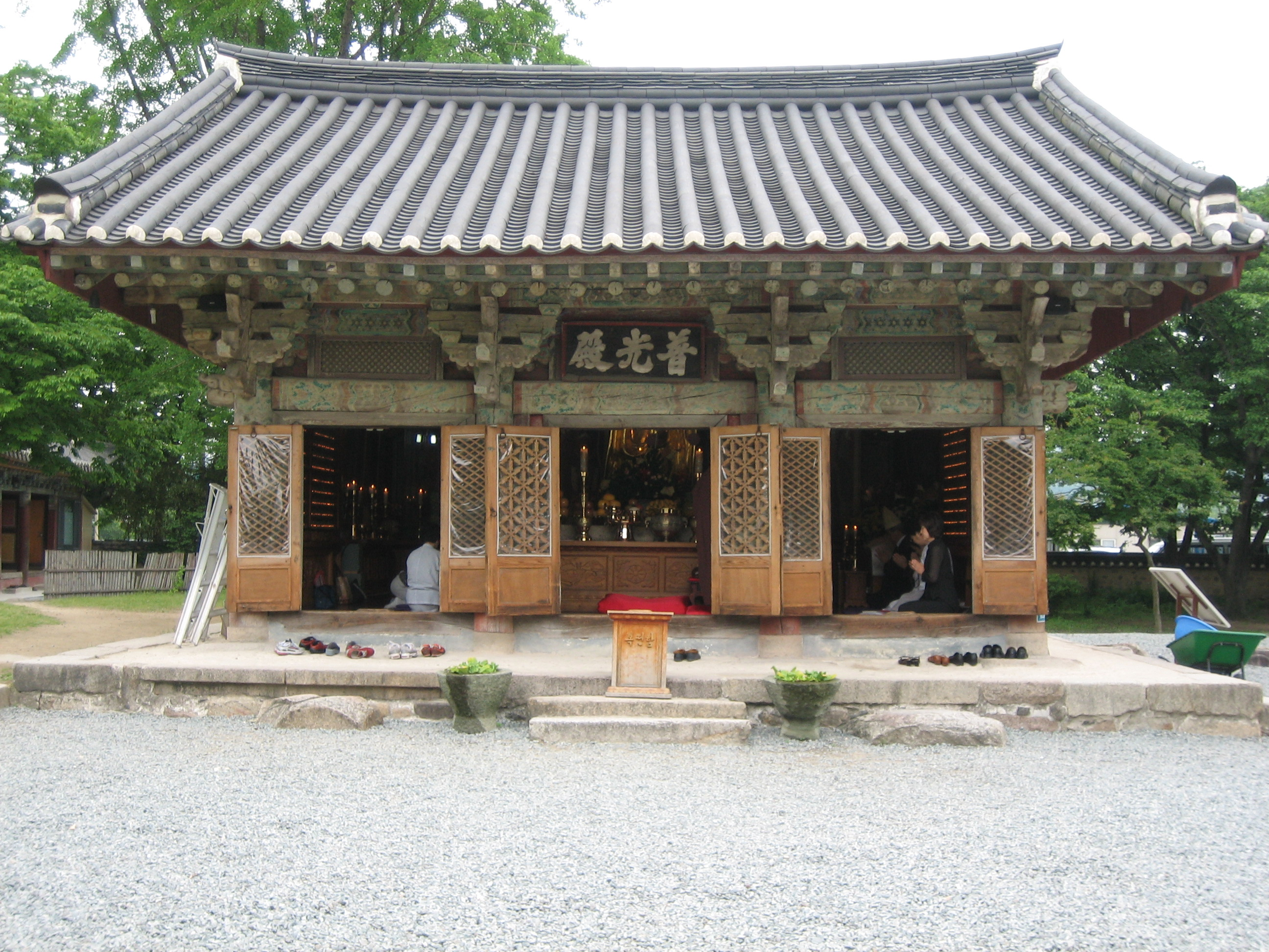 A front view of Bogwangjeon hall enshrining Monk Wonhyo at Bunhwangsa temple in Gyeongju, North Gyeongsang province, South Korea